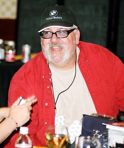 Daniel Knauf, creator of Carnivale.